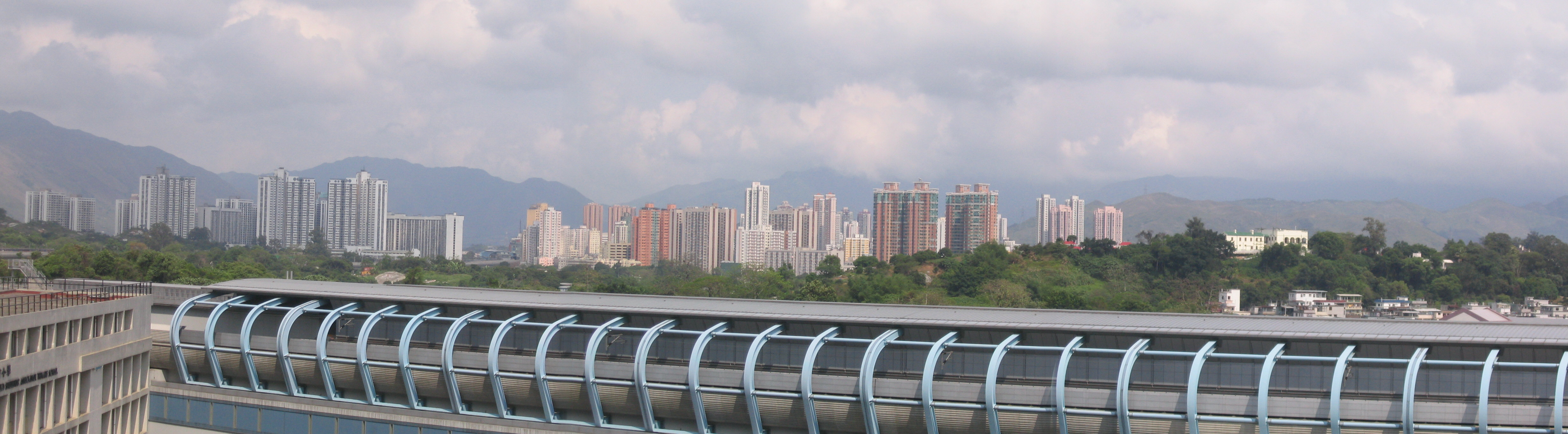 A panoramic view of Yuen Long Town - to the left is Long Ping Estate, to the right is Yuen Long Centre and the foreground is Tin Shui Wai Station.